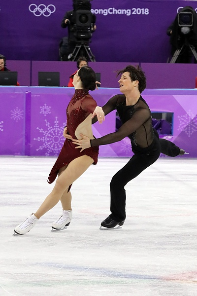 Tessa Virtue and Scott Moir at the 2018 Winter Olympic Games in PyeongChang